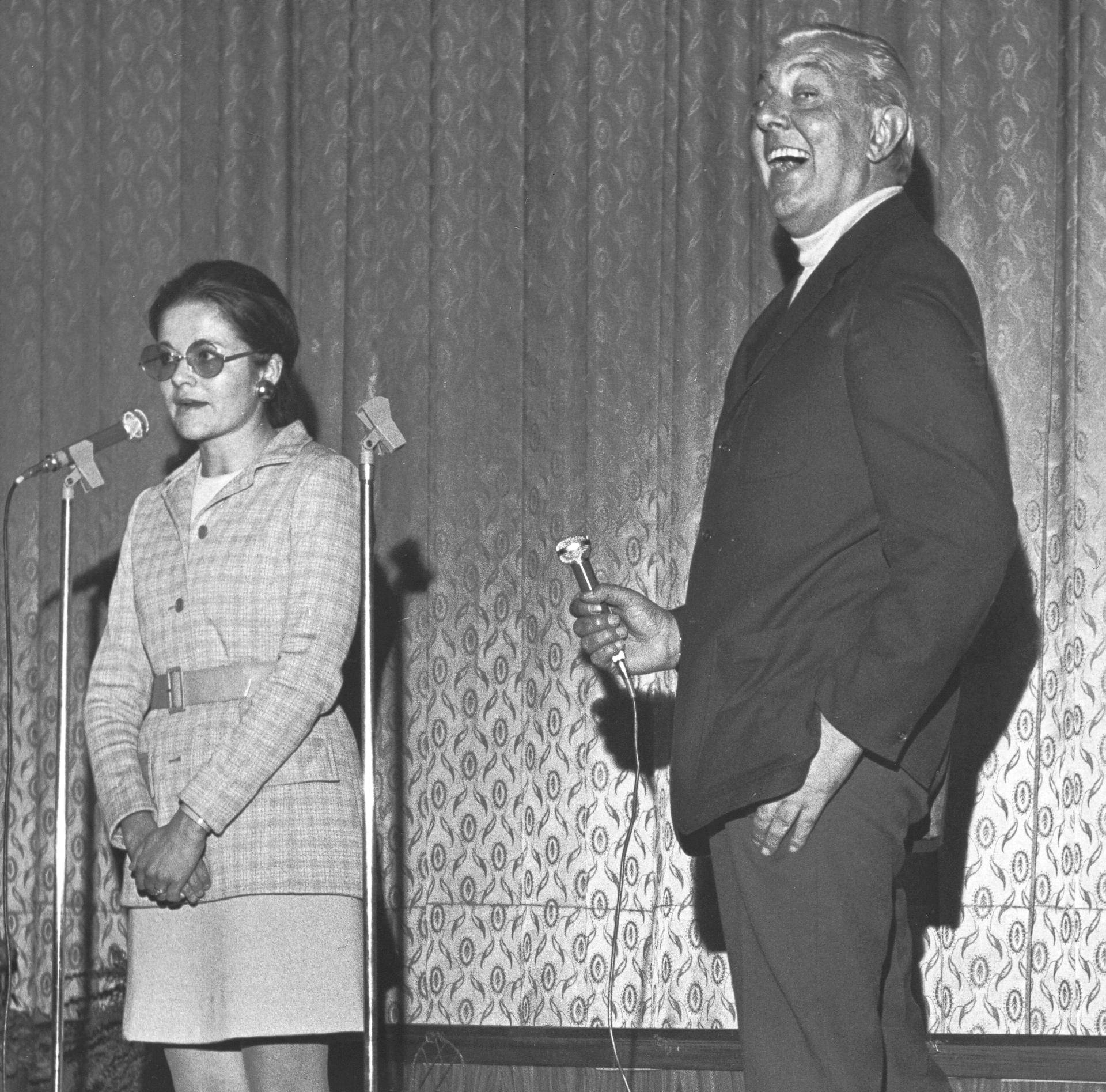 Photograph of the French filmmaker Jacques Tati during his visit to Helsinki, Finland. He was promoting his film Playtime. Here Tetta Kannel translating his speech in Bio Rea movie theatre.